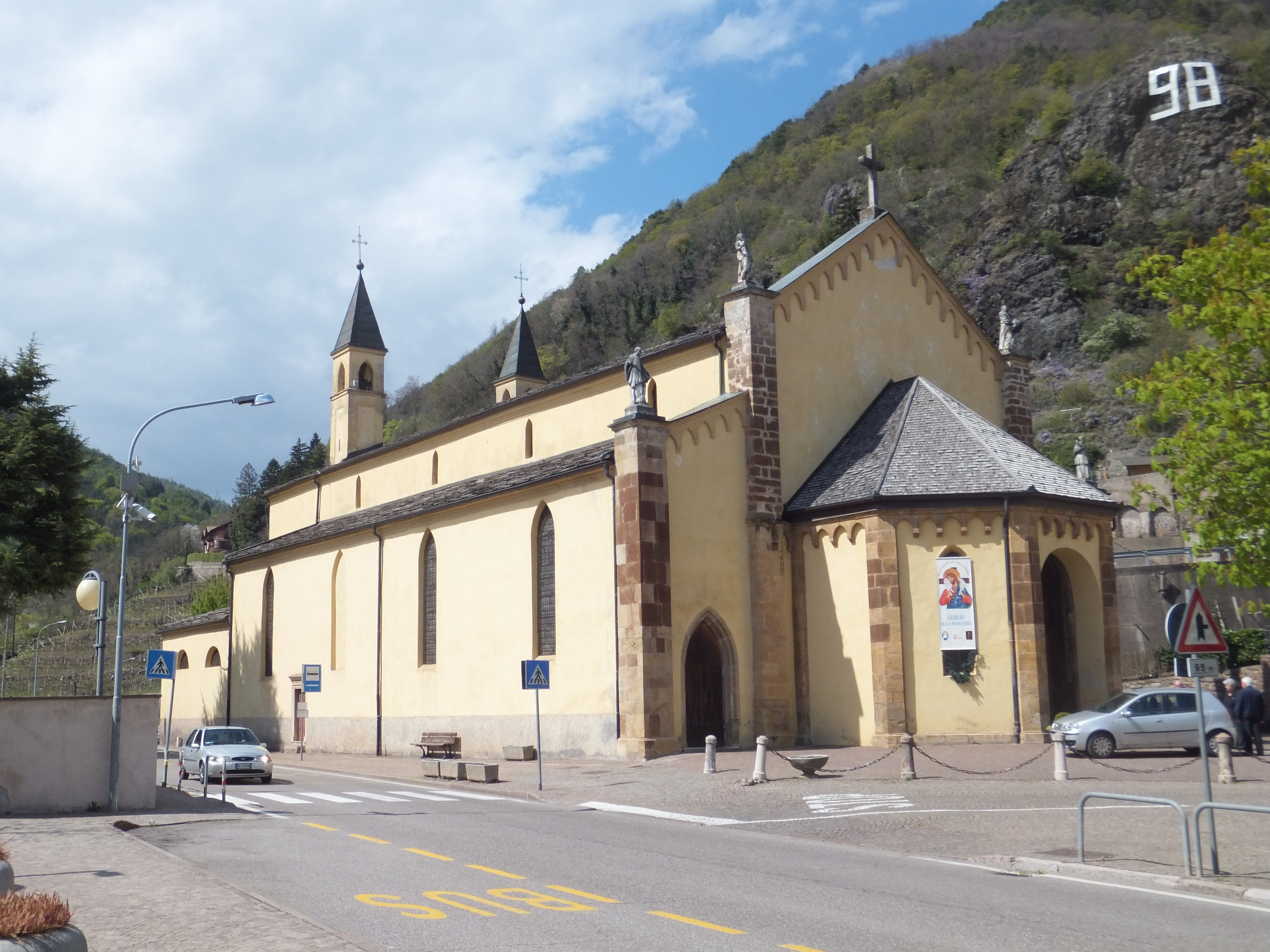 Cembra (Trentino, Italy) - Church of the Assumption of Mary